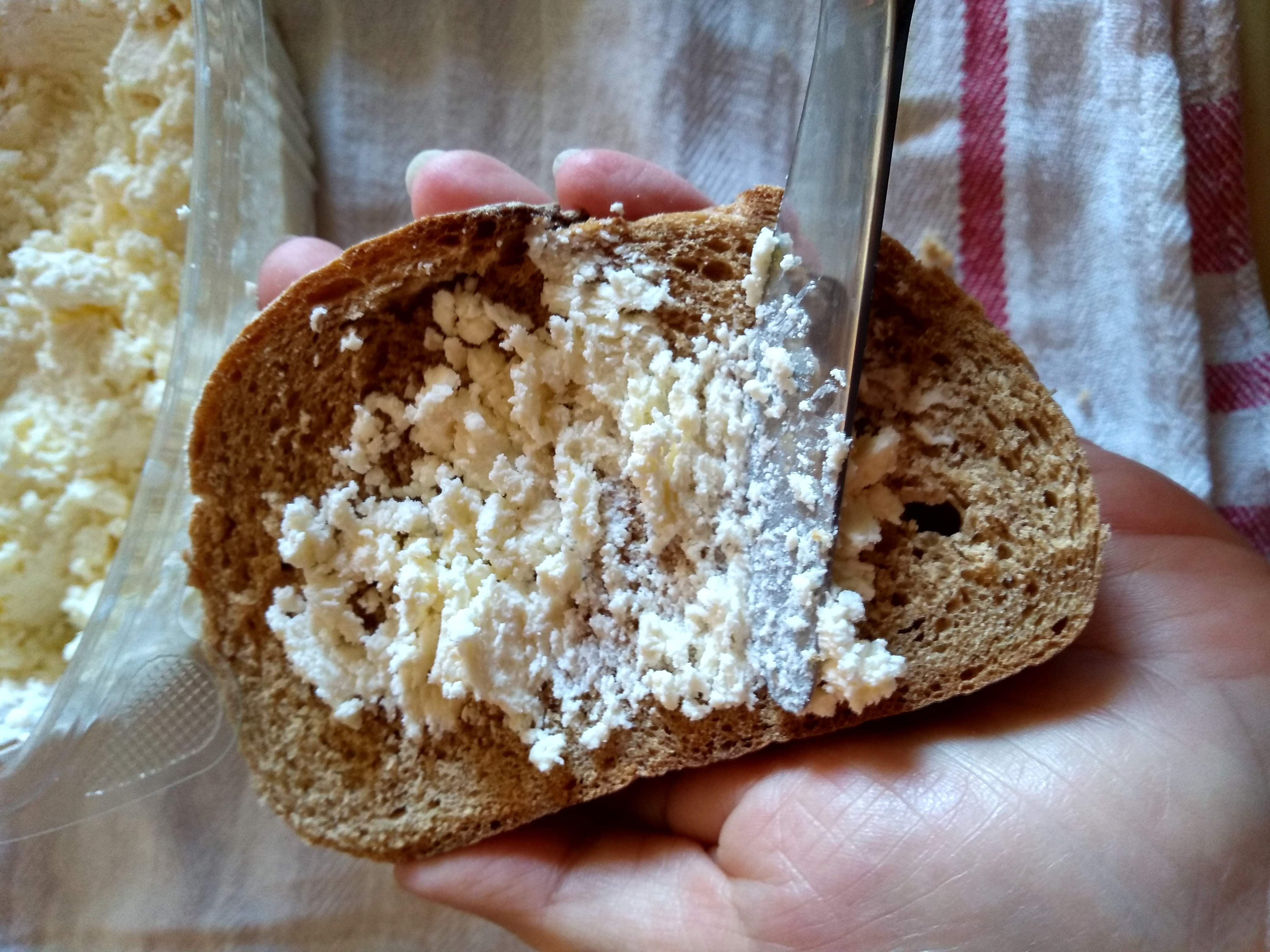 Kaymak, traditional food in Montenegro